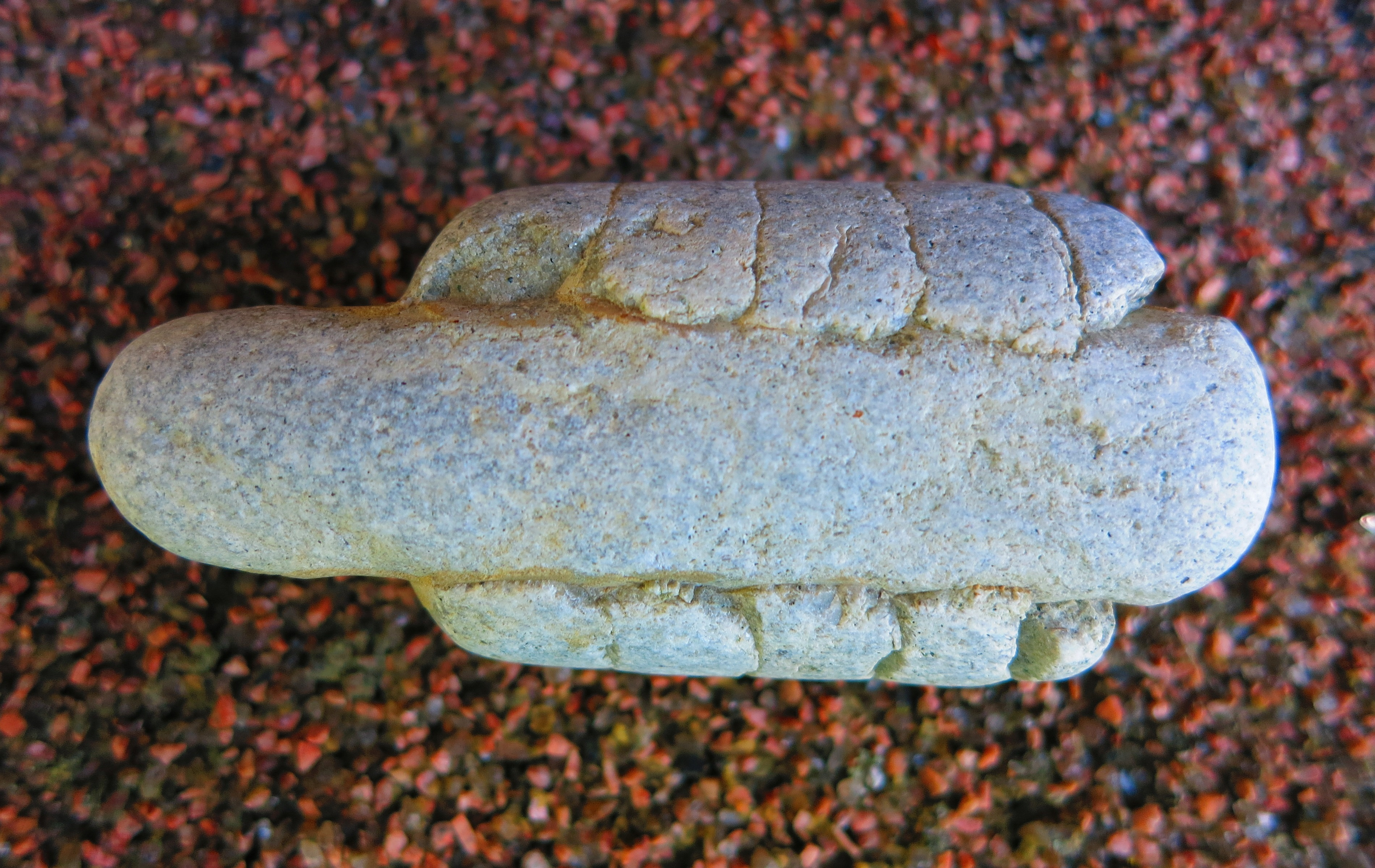 Fossil fragment from beach of Gulf of Finland in Voka (Ida-Viru County, Estonia)